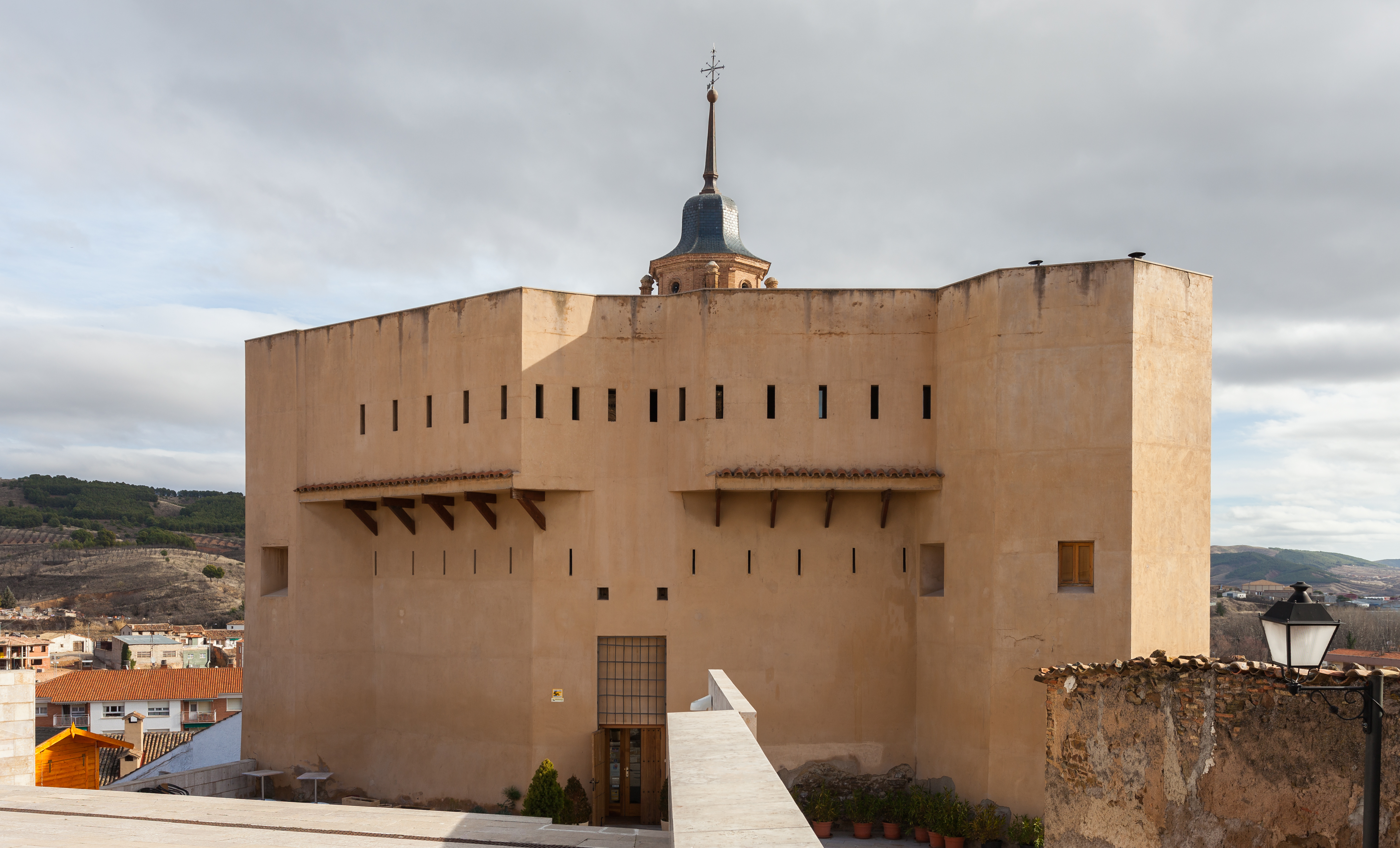 Castle, Ateca, Zaragoza, Spain